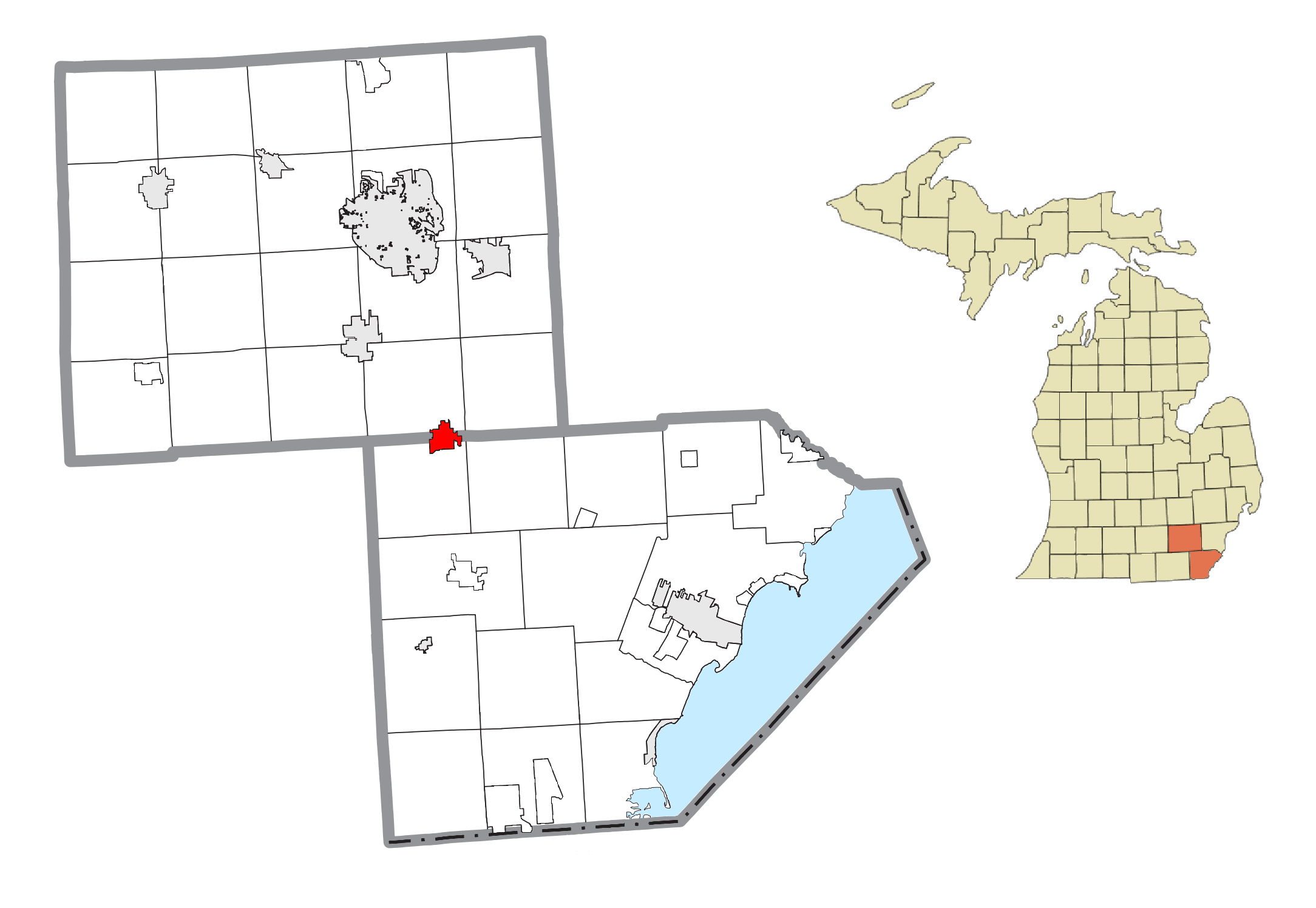 Milan, MI